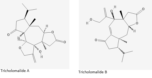 Tricholomalide A and B